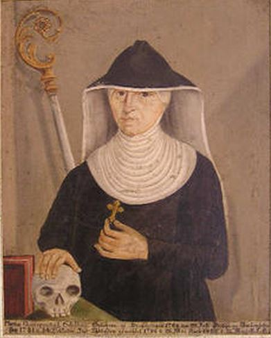 Kunigunde Schilling von Hintschingen, last abbess of Kloster Amtenhausen